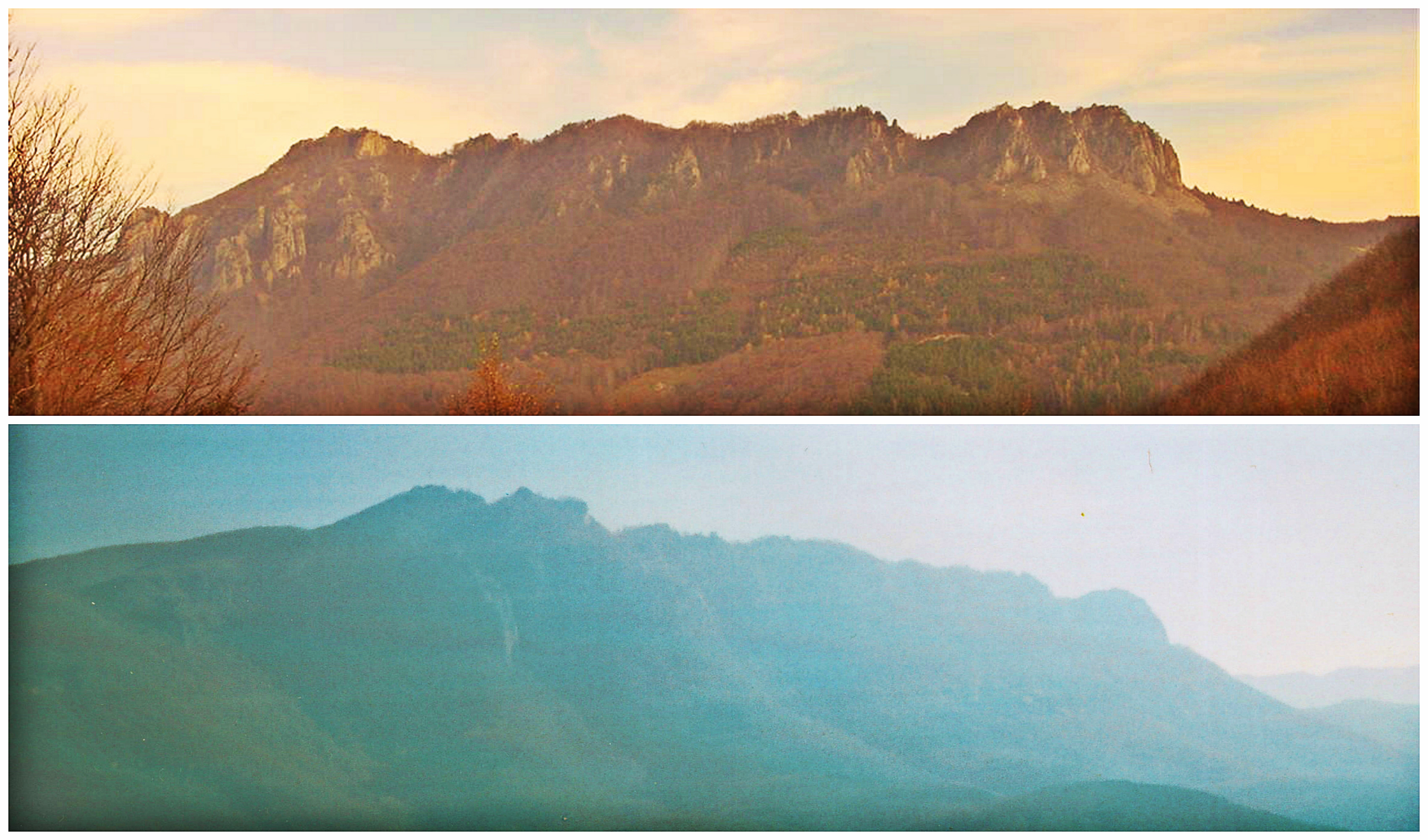 Belintash seen from Dolnoslav